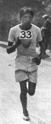 Lewis Tewanima, Athlet and medalwinner at the 1912 Olympic Games photography, adapted reproduction, no restrictions on use Copyright: free of charges